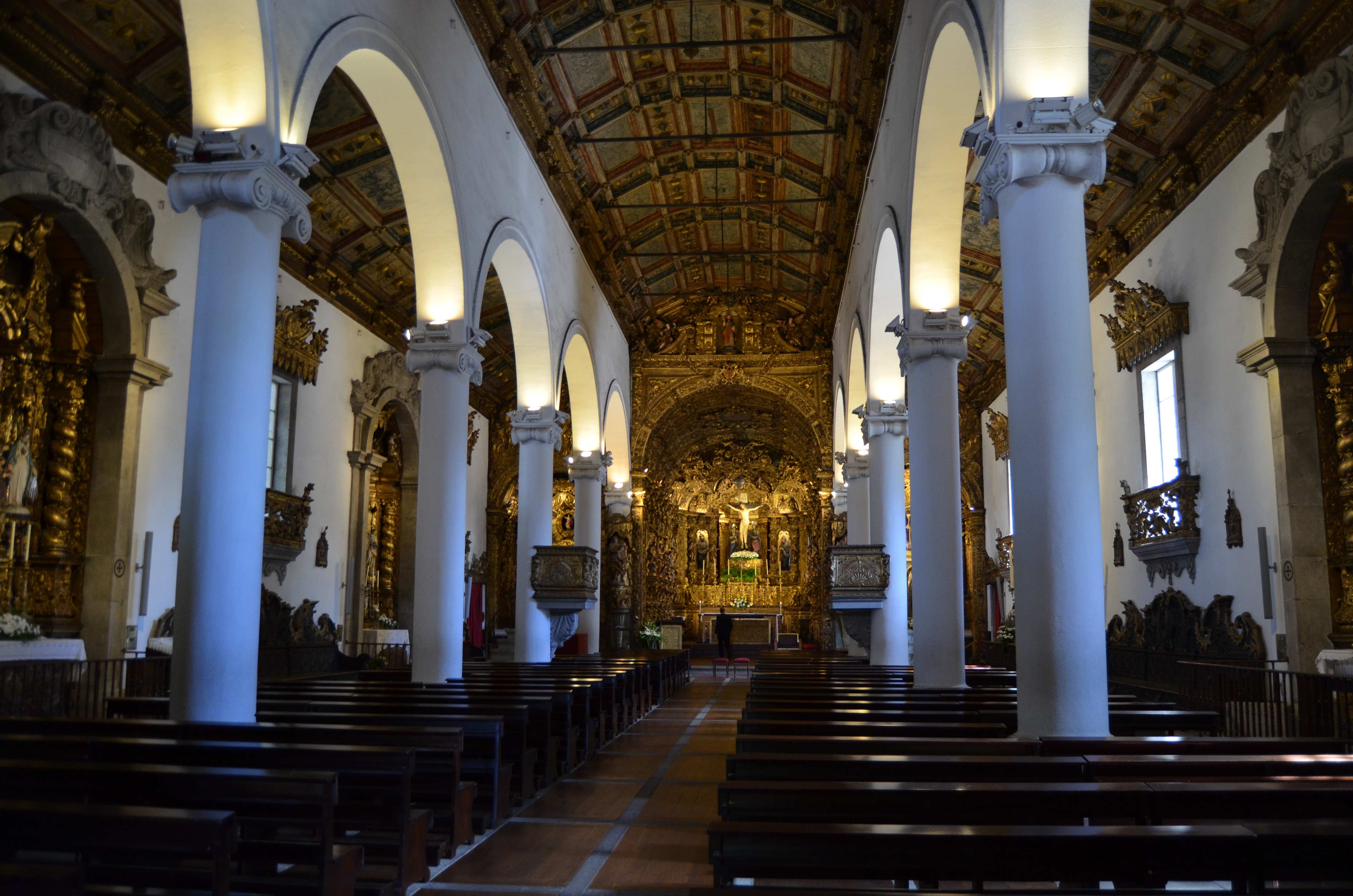 A miracle at the end of the road